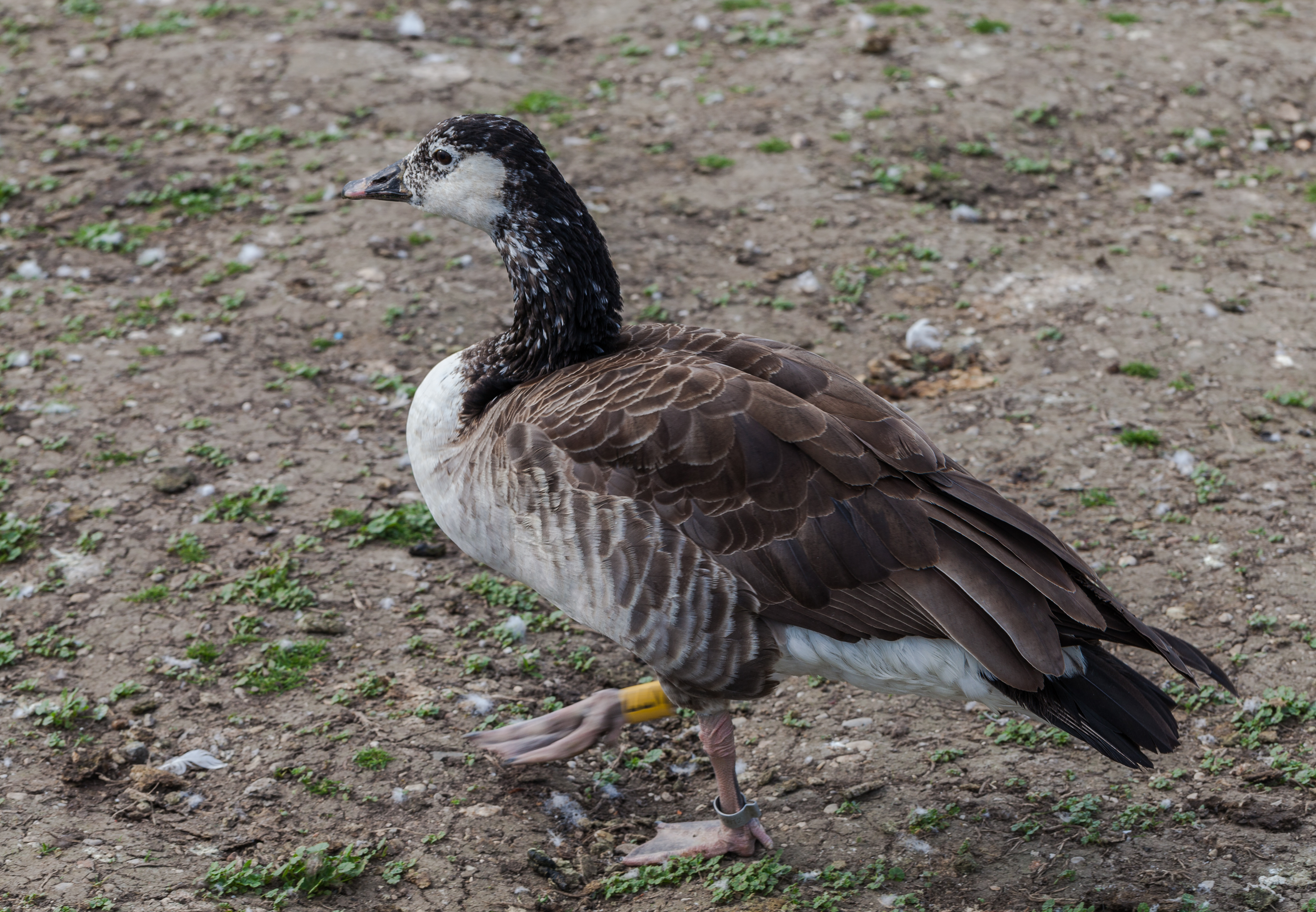 Hybrid Branta canadensis × Anser anser at the Nymphenburg Palace, Munich, Germany